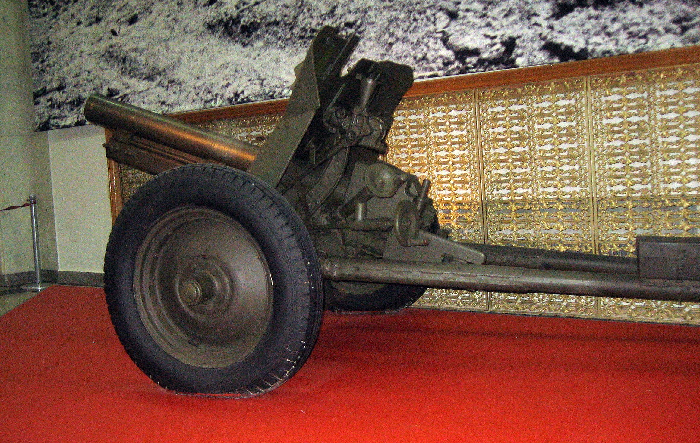 76.2-mm regimental gun M1943 displayed in Central museum of the Great Patriotic War (Moscow)